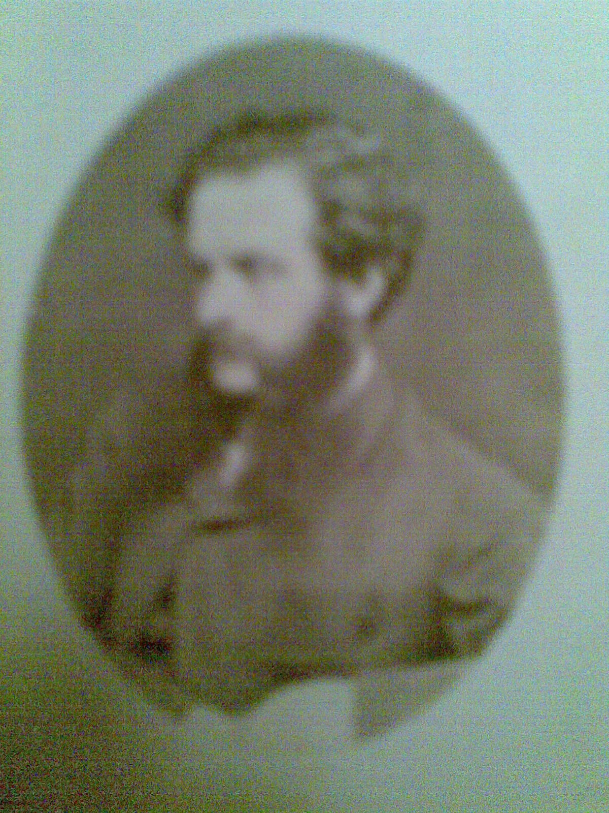 Picture of old photograph of Howard Fox